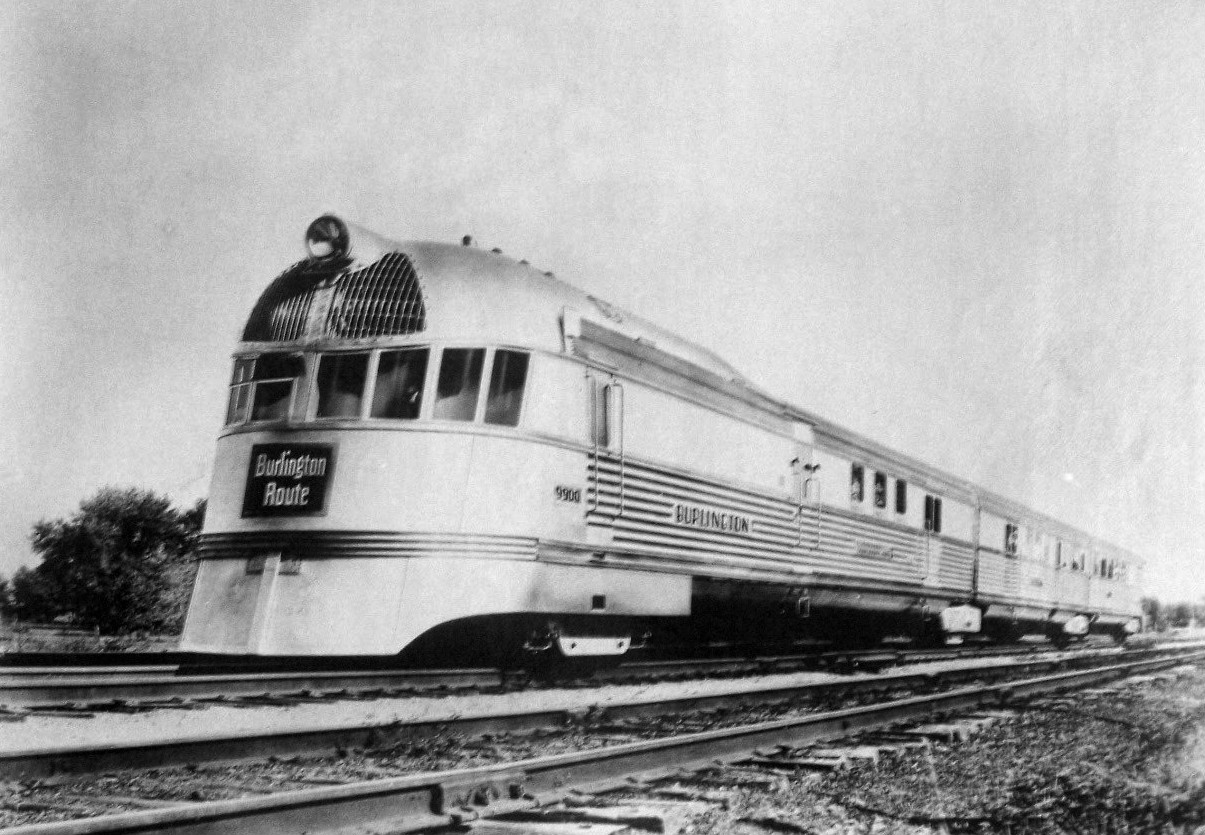 Budd Company photo of the Pioneer Zephyr. This is number 9900, which is the Pioneer Zephyr.